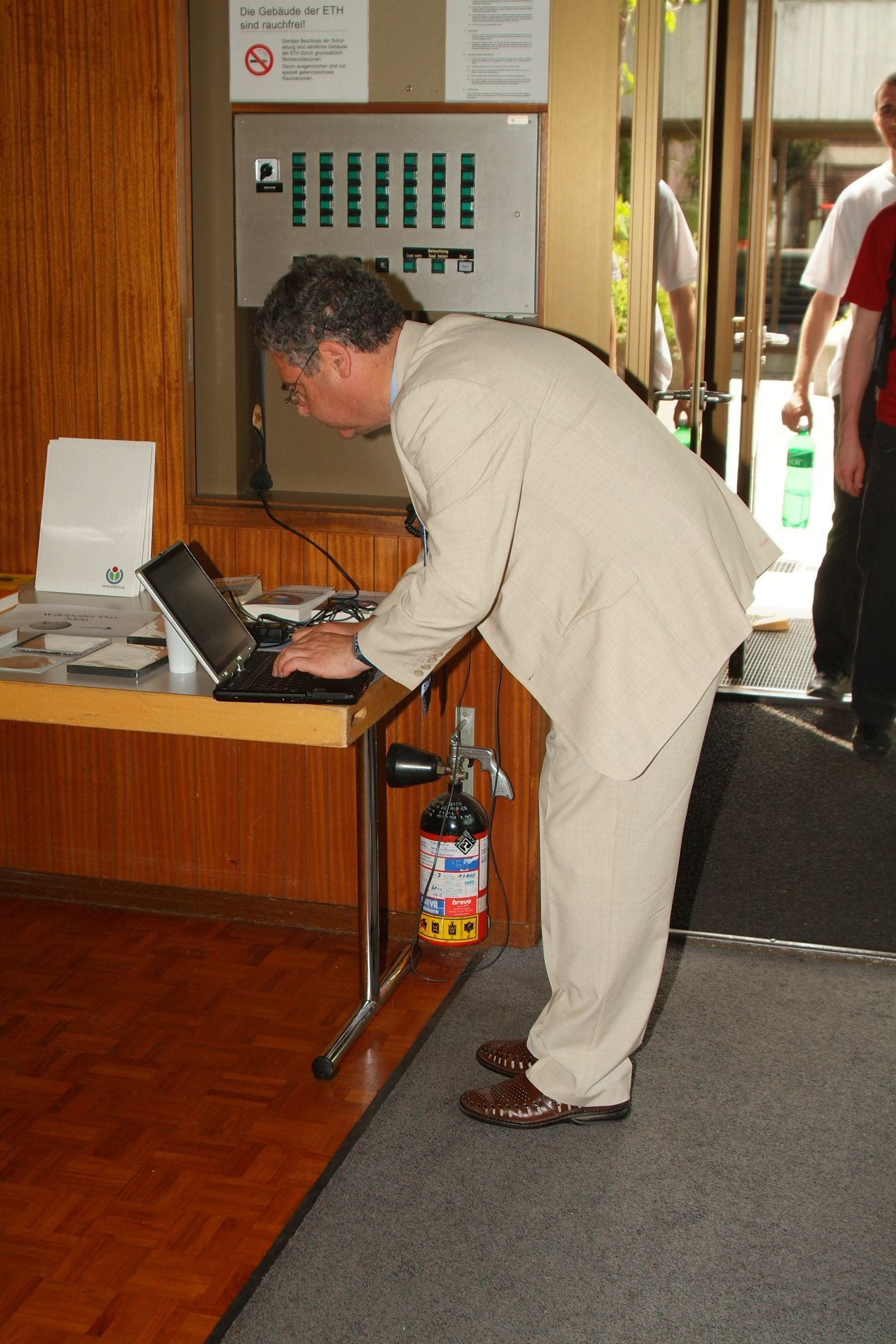 Prof.Bertrand Meyer before his speech